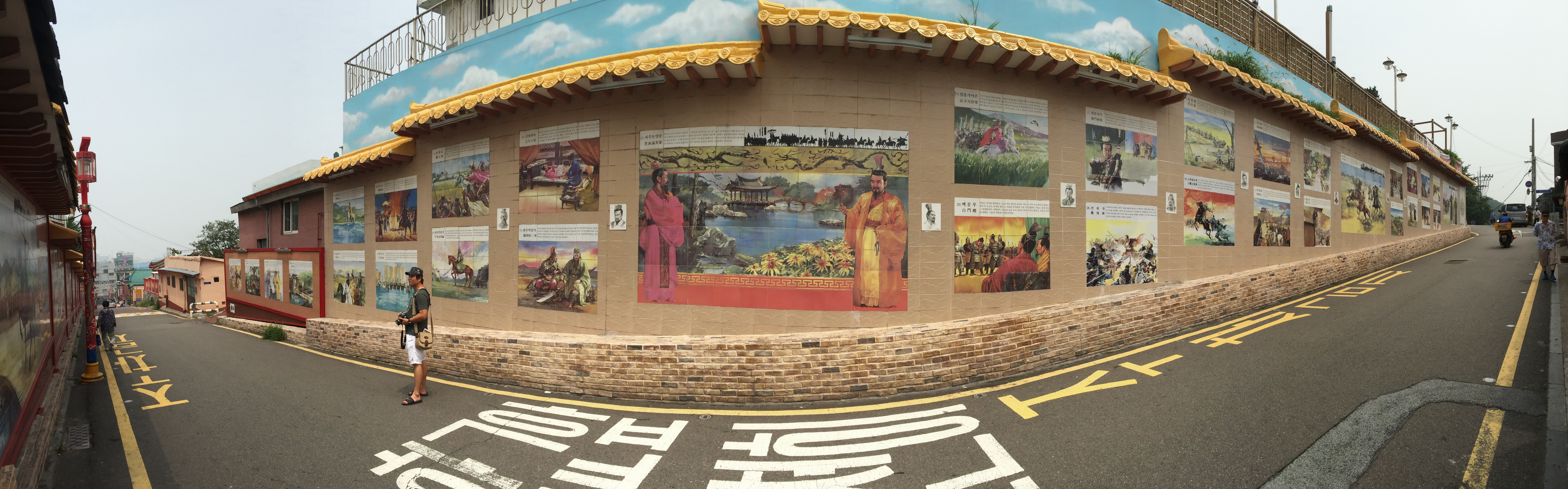 Incheon Chinatown Samgukji-Geori